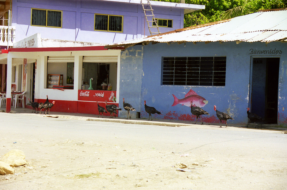 Wild Turkeys at Cazones, Veracruz state, Mexico